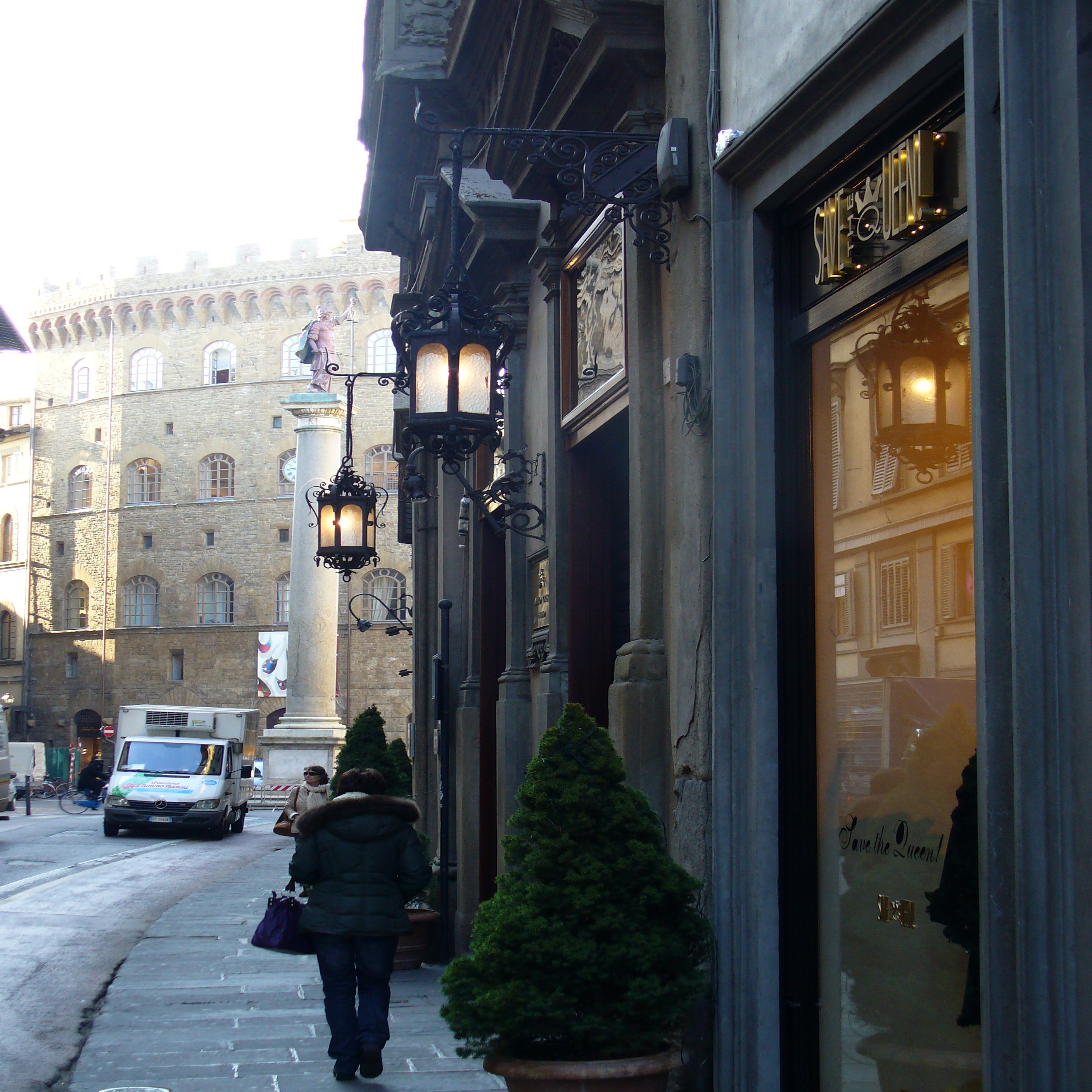 Via de' Tornabuoni florence